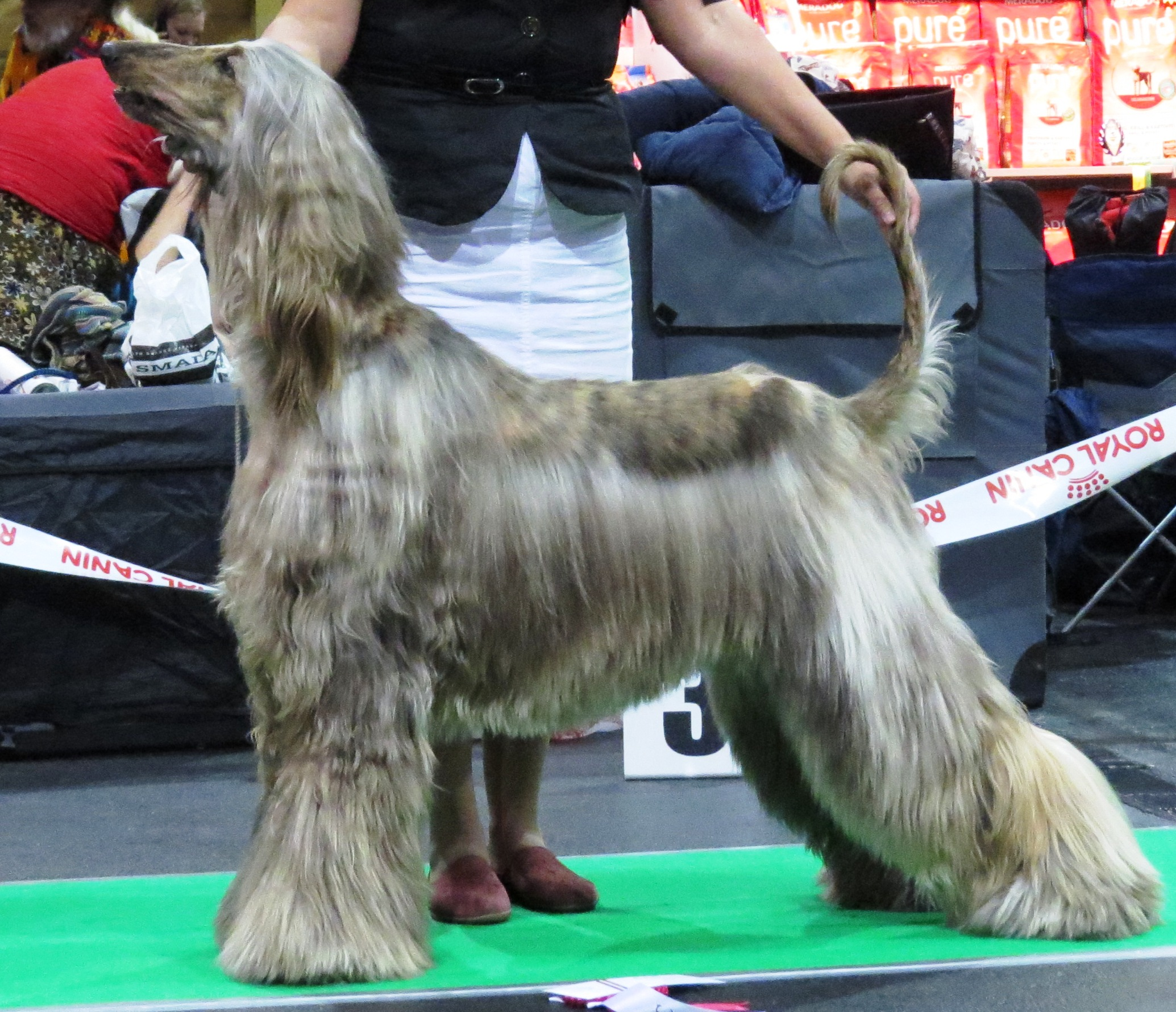 Riga, Baltic Winner -2013, 9-10 Nov